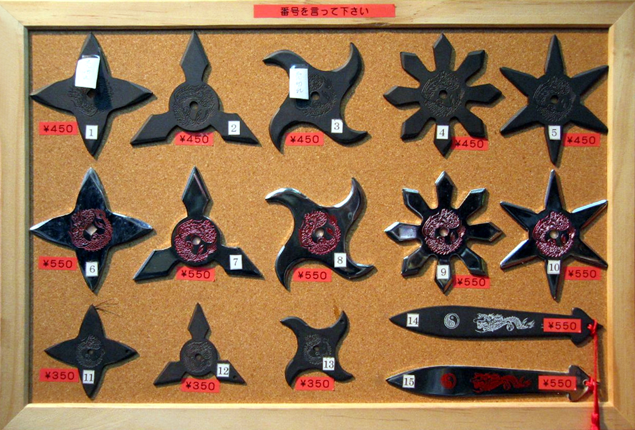 Different types of Shuriken